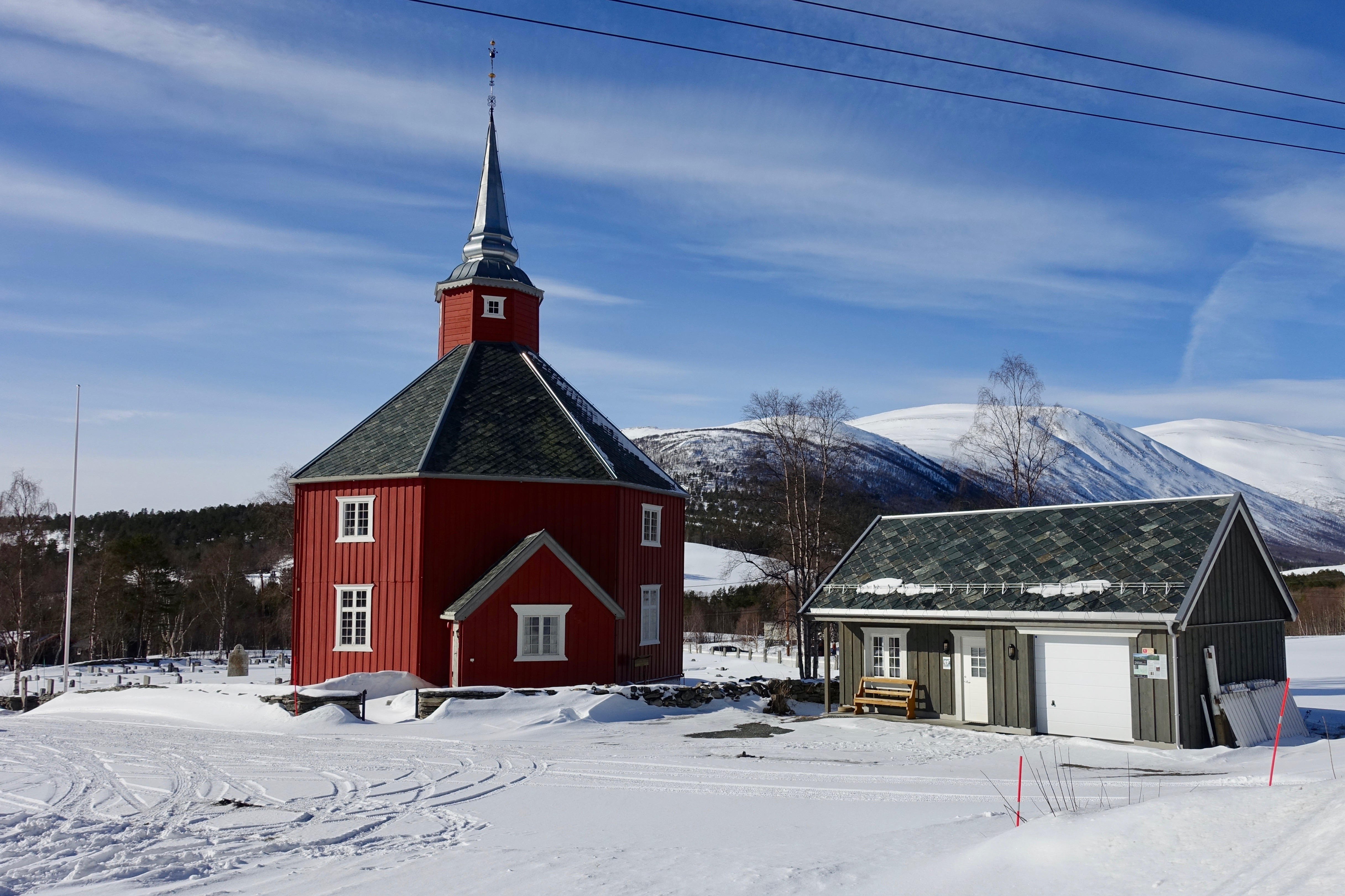 Lønset kirke/kyrkje, octagonal wooden church built 1863, in Oppdal, Trøndelag, Norway. Snow, blue sky, etc.Photo 2019-03-19.